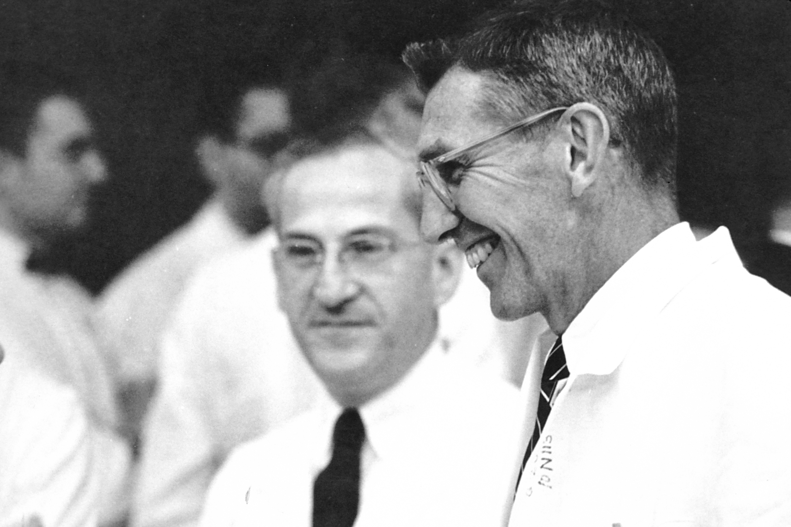 Title Hertz, Roy and Zubrod, Gordon Description Roy Hertz (l) and Gordon Zubrod (r). Roy Hertz discovered that methotrexate treatment alone could cure choriocarcinoma (1958), a germ-cell malignancy that originates in trophoblastic cells of the placenta. Topics/Categories Historical, People Type B&W, Photo Source National Cancer Institute